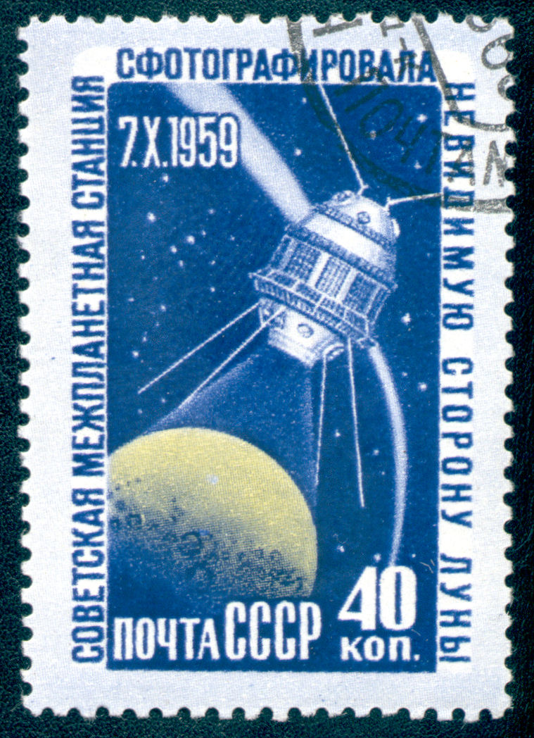 1959 Soviet Union 40 kopeks stamp. Photo of invisible side of Moon.